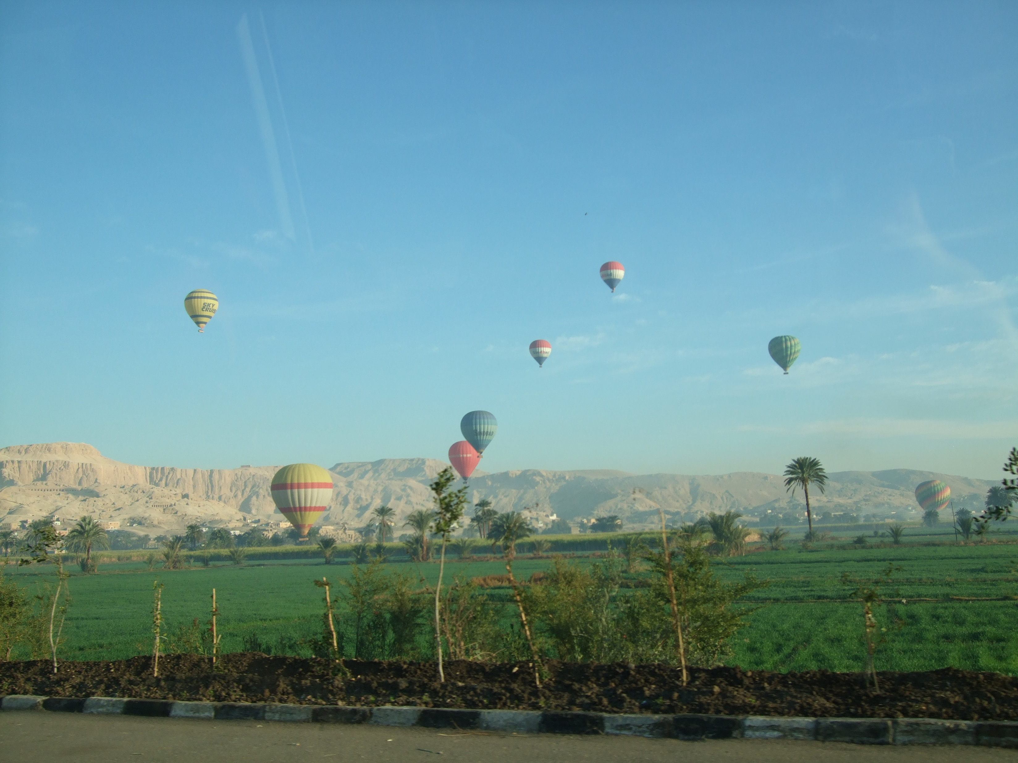 Hot Air Balloons over the West Bank in Luxor, Egypt